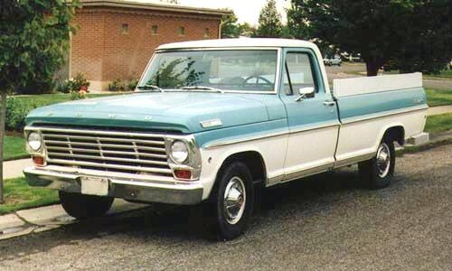 1967 Ford F-100 Ranger (front view)